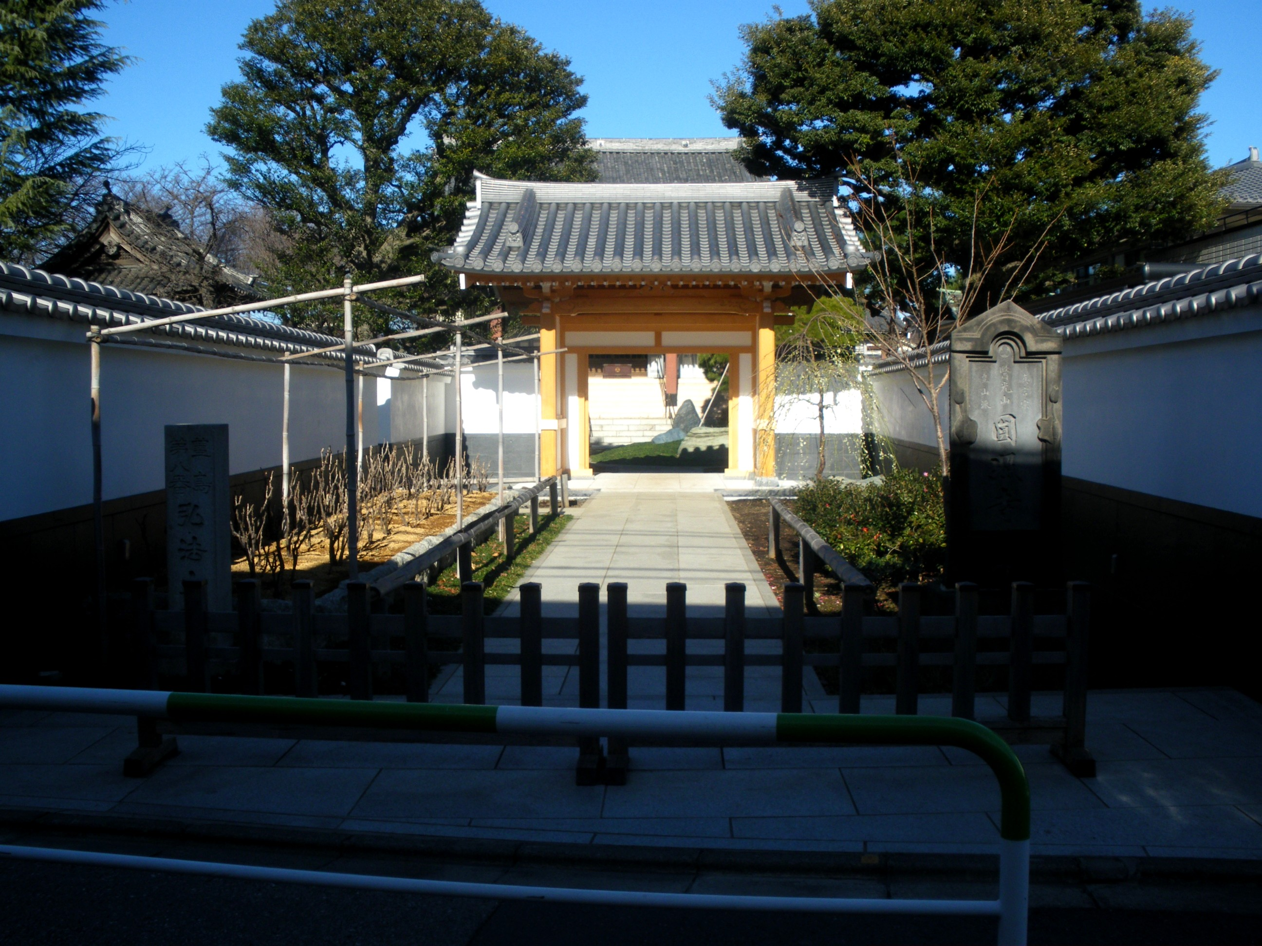 A photo of Enshoji temple,Kitashinjuku,Shinjuku-ku,Tokyo,Japan.